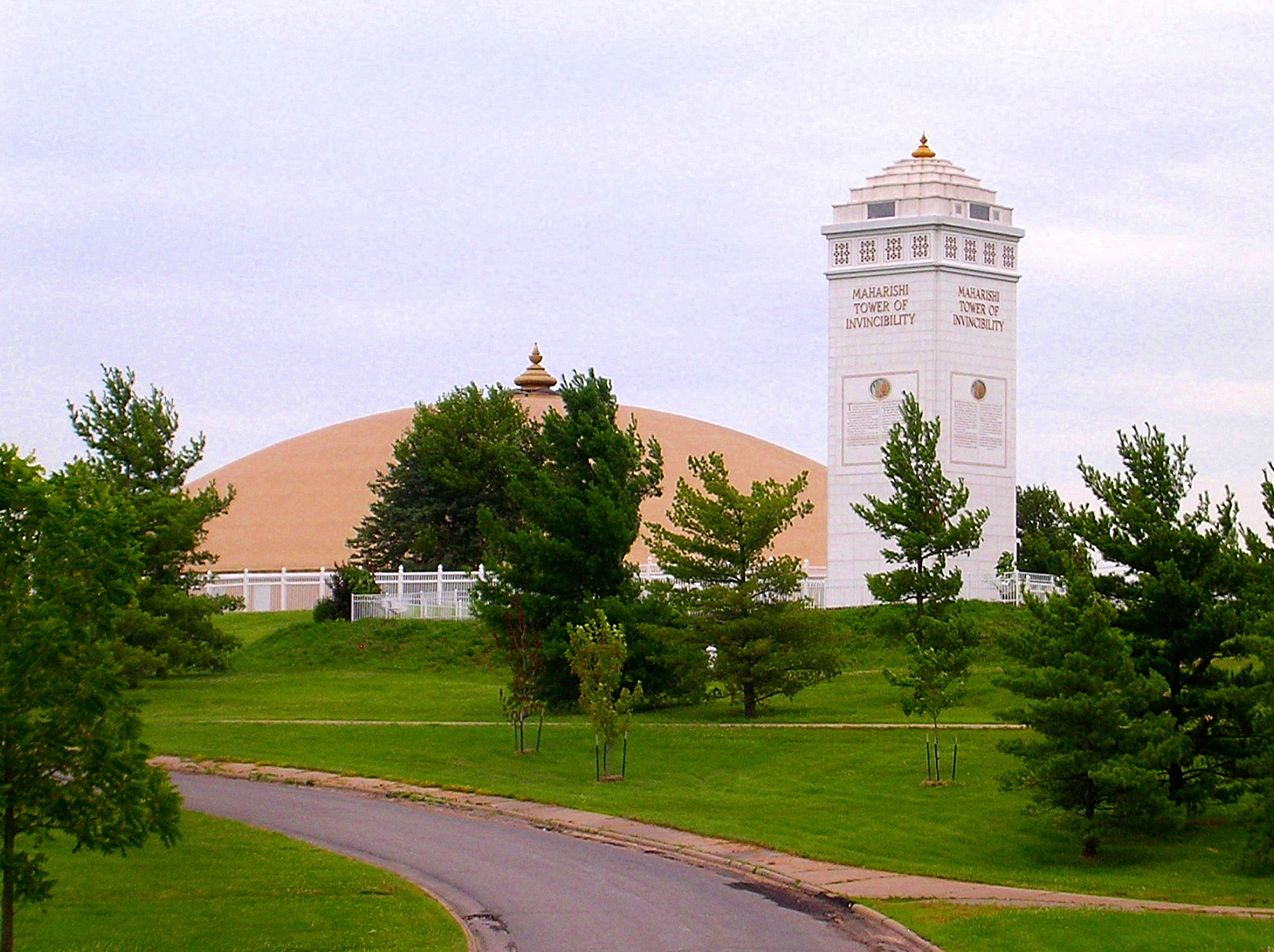 Tower of Invincibility on the campus of Maharishi University of Management in Fairfield Iowa. In the background can be seen the a dome shaped building that is used for group practice of the TM-Sidhi program and Yogic Flying.